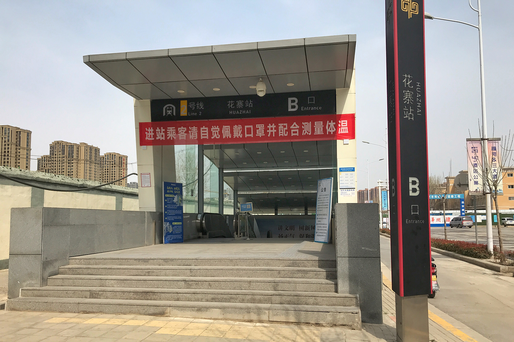 Exit B of Huazhai Station